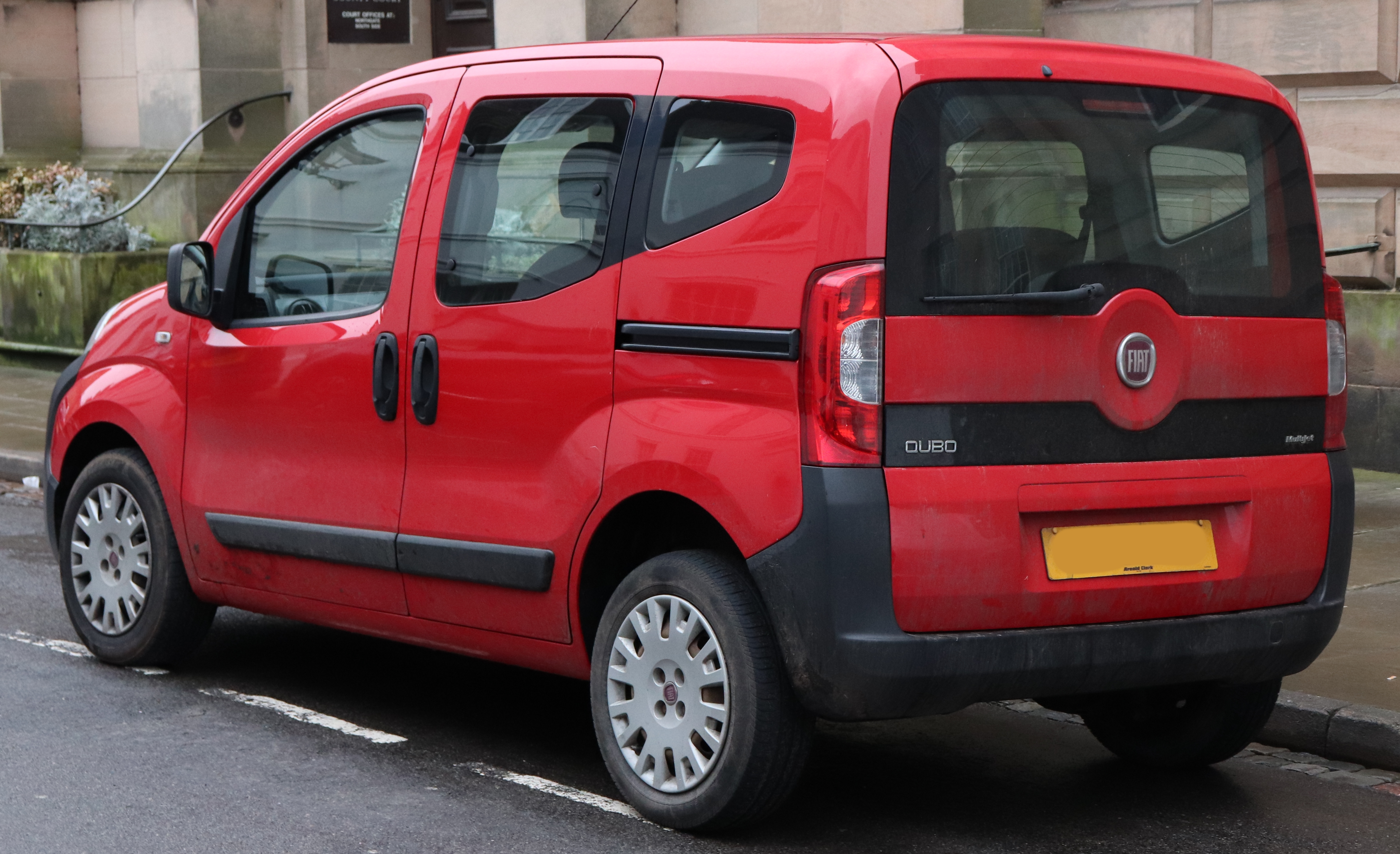 2010 Fiat Qubo Active Multijet 1.2 Rear Taken in Warwick